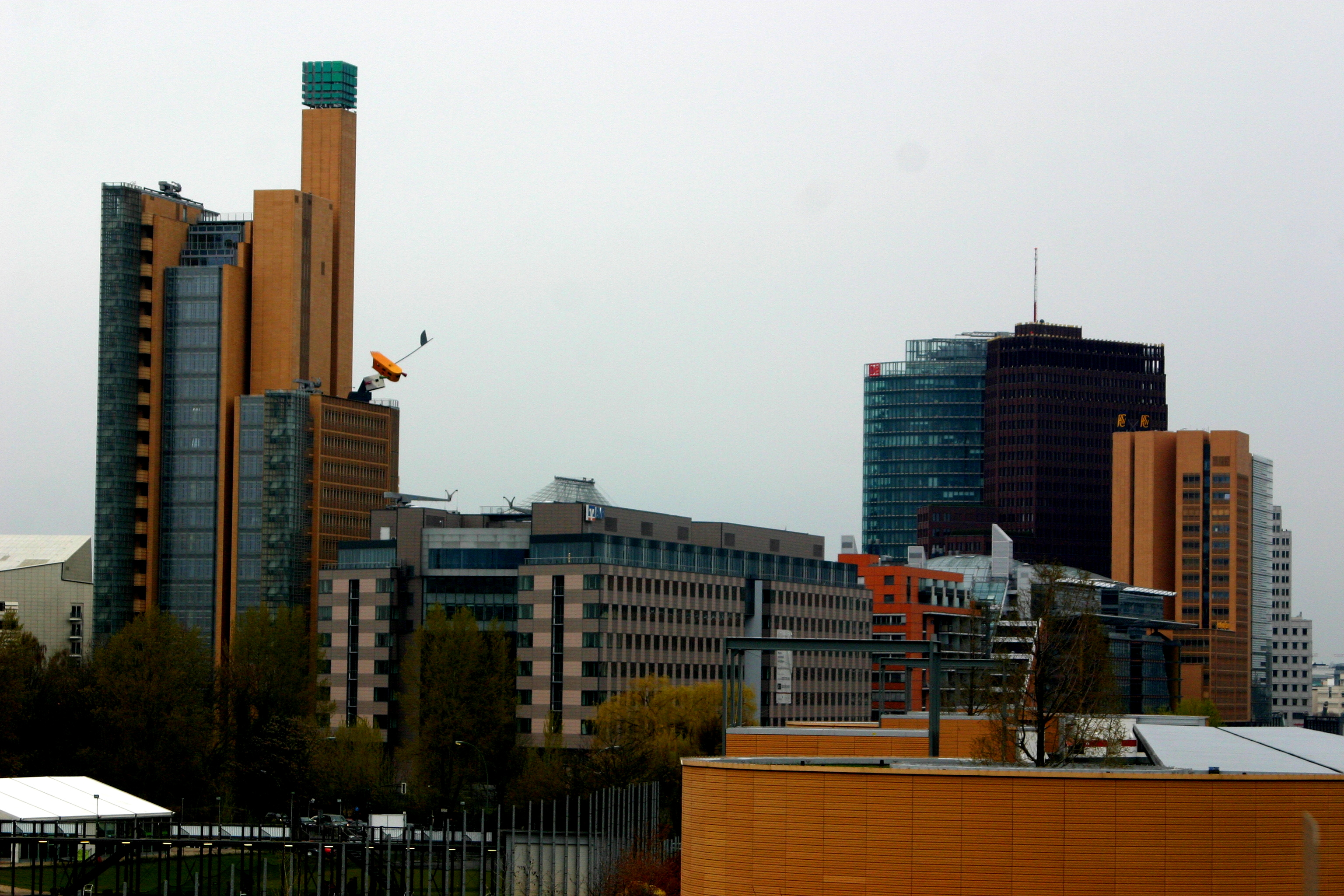 Skyline of Potsdamer Platz in Berlin (seen from south)